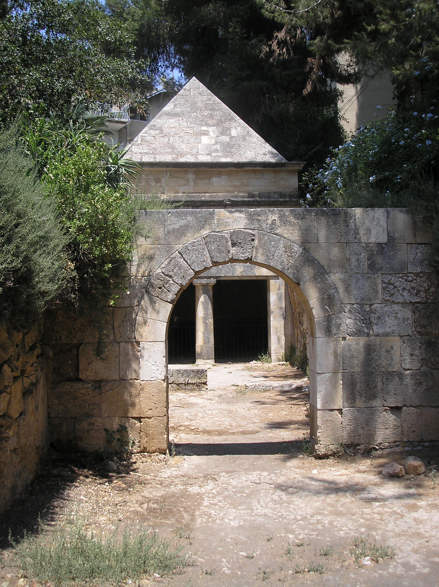 Jason's Tomb, Rehavia, Jerusalem